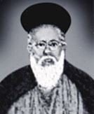 Julius Mar Alvares Thirumeni Metropolitan Of Goa and Ceylon